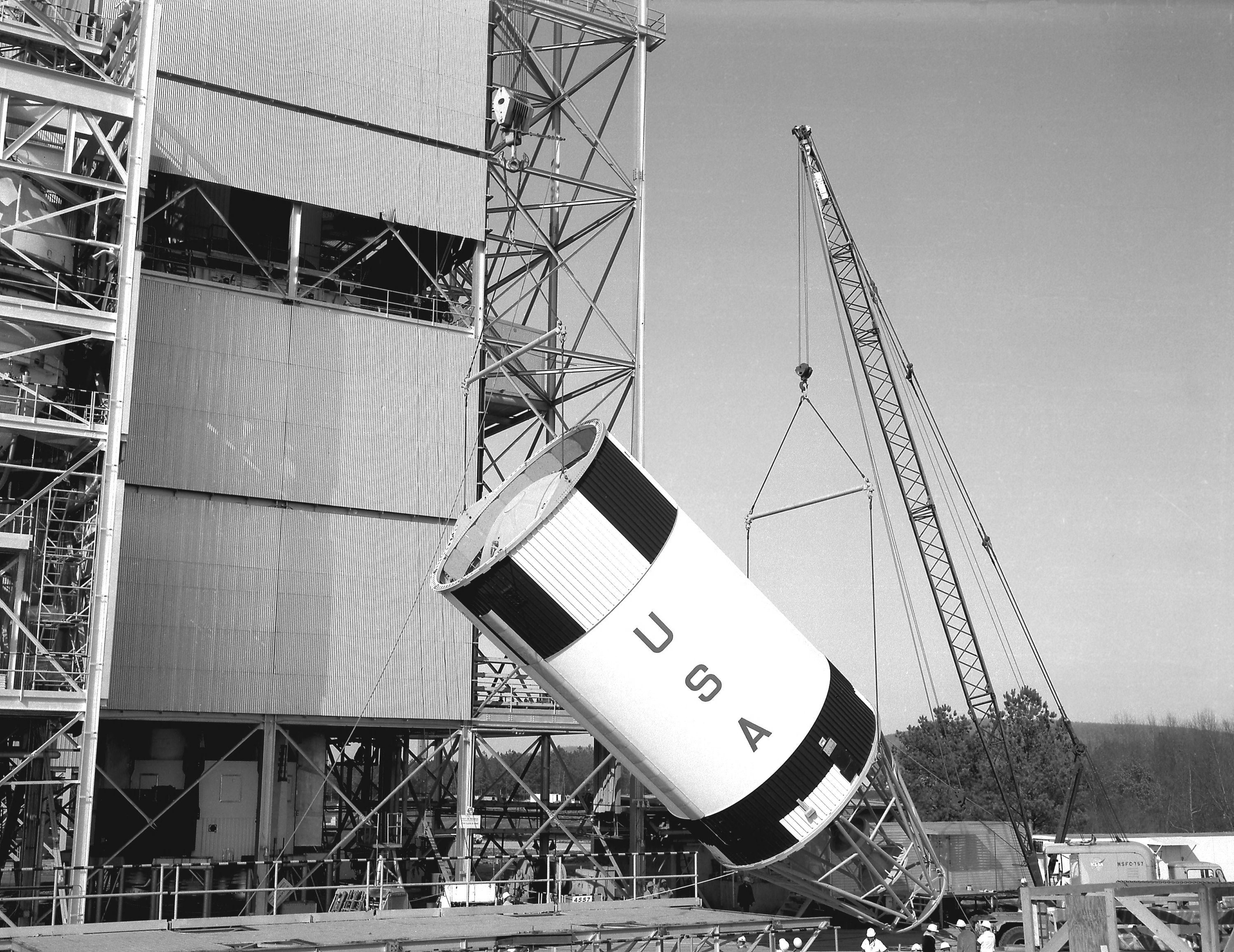 Marshall Space Flight Center (MSFC) workers hoist a dynamic test version of the S-IVB stage, the Saturn IB launch vehicle's second stage, into the Center's Dynamic Test Stand on January 18, 1965. MSFC Test Laboratory persornel assembled a complete Saturn IB to test the launch vehicle's structural soundness. Developed by the MSFC as an interim vehicle in MSFC's "building block" approach to the Saturn rocket development, the Saturn IB utilized Saturn I technology to further develop and refine the larger boosters and the Apollo spacecraft capabilities required for the manned lunar missions.